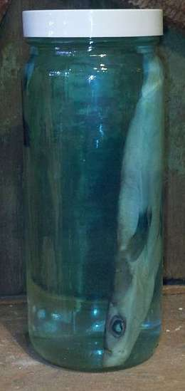 A preserved dogfish specimen in a glass container, upload for use in Parable of the Sunfish. This is the cropped version of the photograph